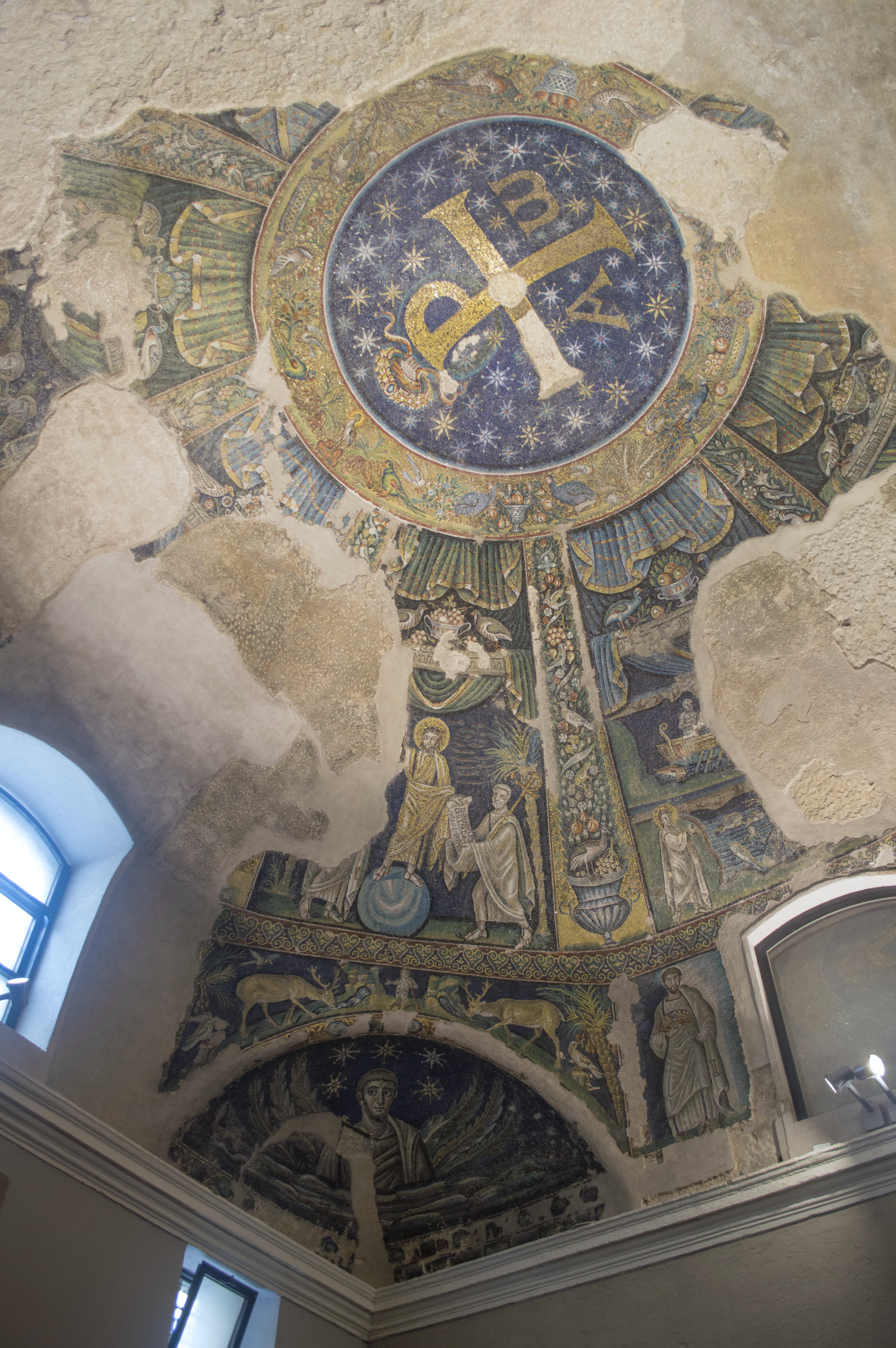 Battistero di San Giovanni in Fonte, Naples